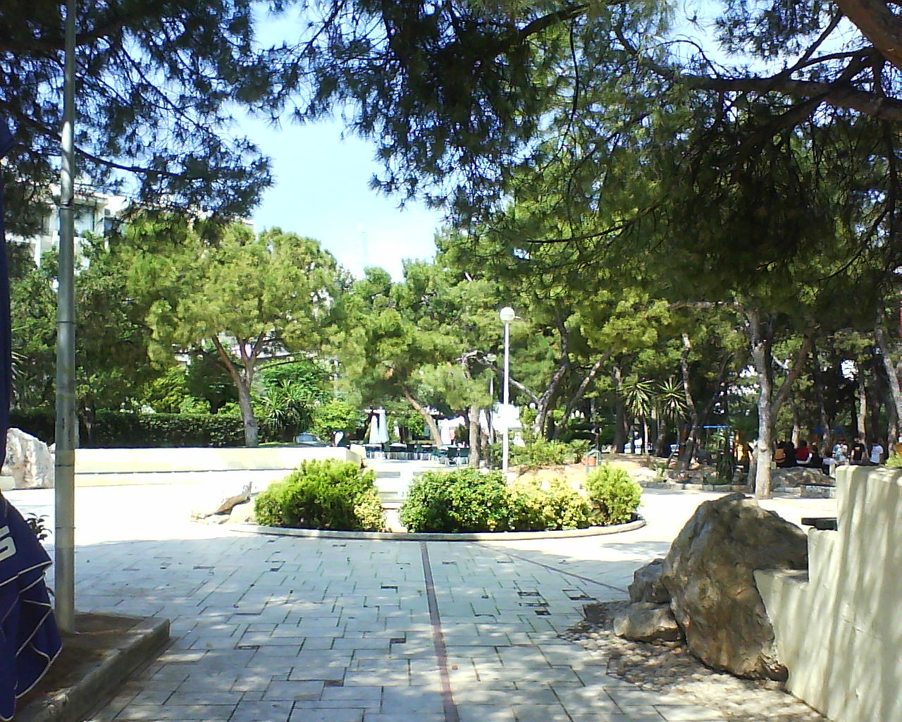 Neo Psihiko Square